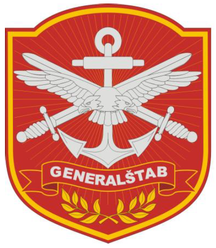 Geleralstaff Military Montenegro